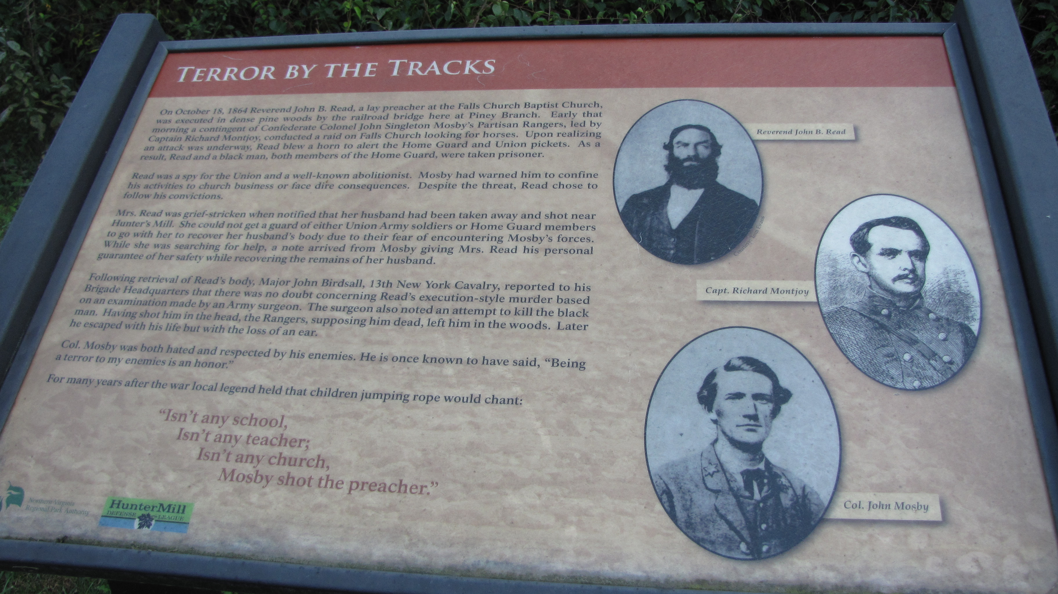 A photo of the historical marker on the W+OD Railroad commemorating the death of John D Read.